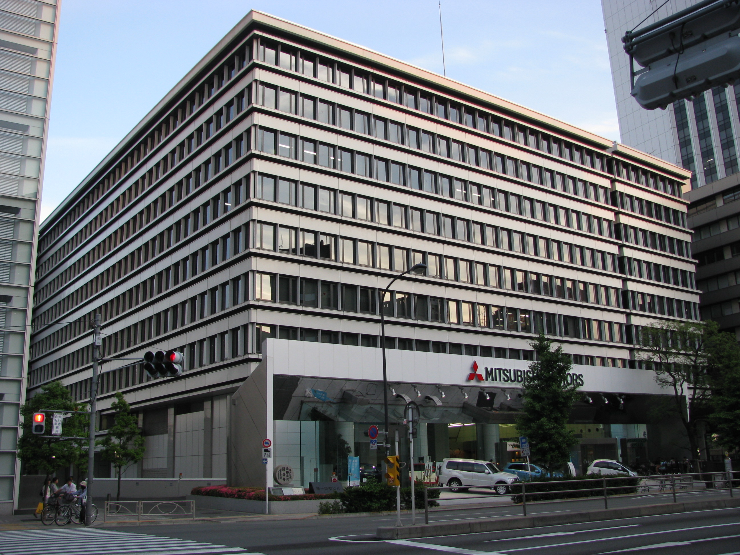 Mitsubishi Motors Headquarters in Shiba, Minato, Tokyo, Japan.